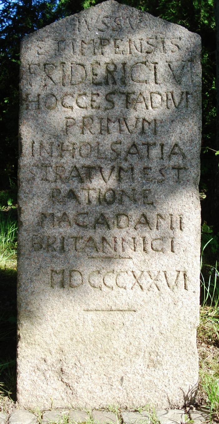 Named after the Macadam paving process